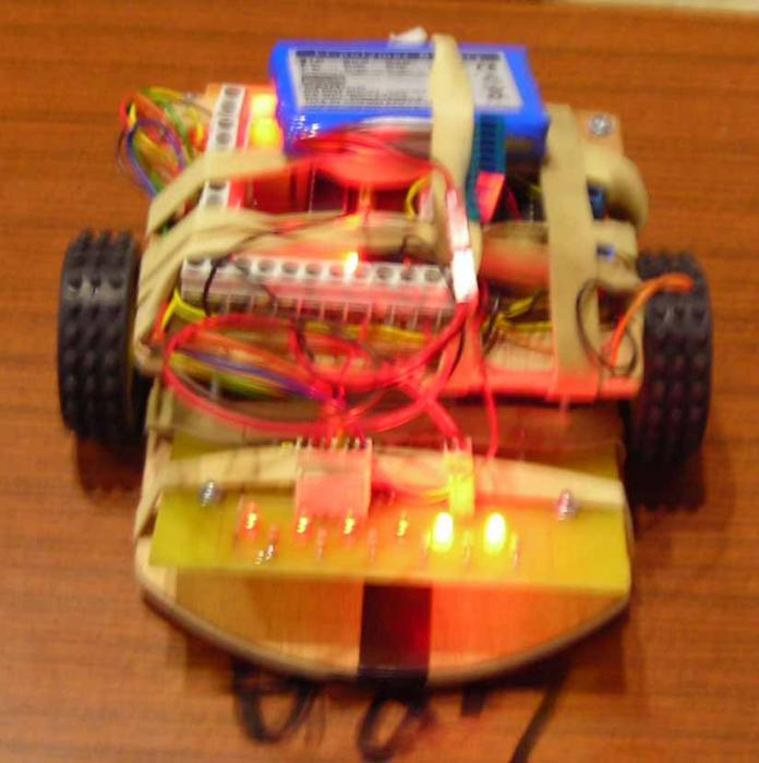 Robot ligne suiver